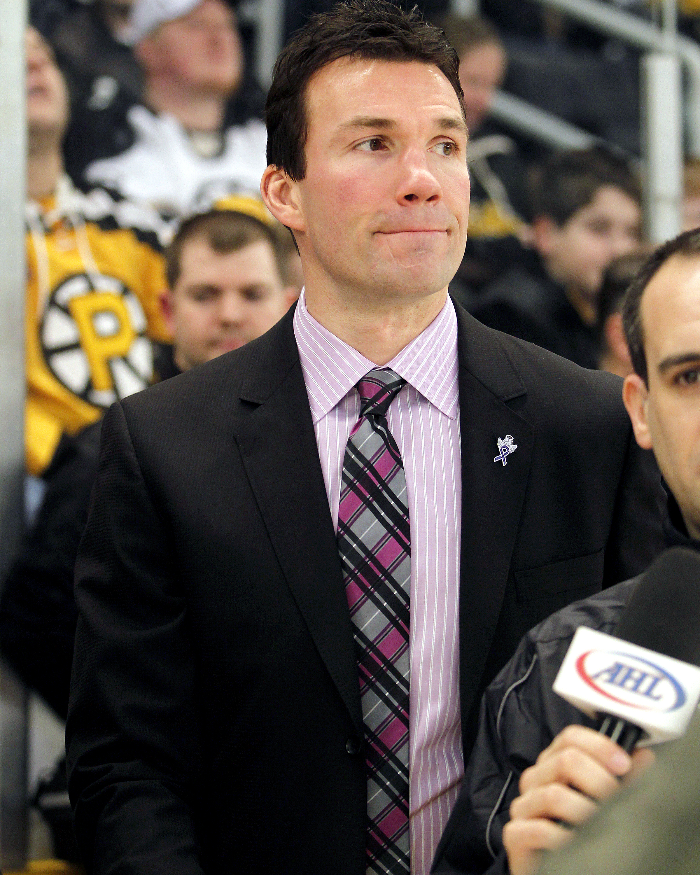 Richardson American Hockey League (AHL). 2013 All-Star Skills Competition. Taken on January 27, 2013.